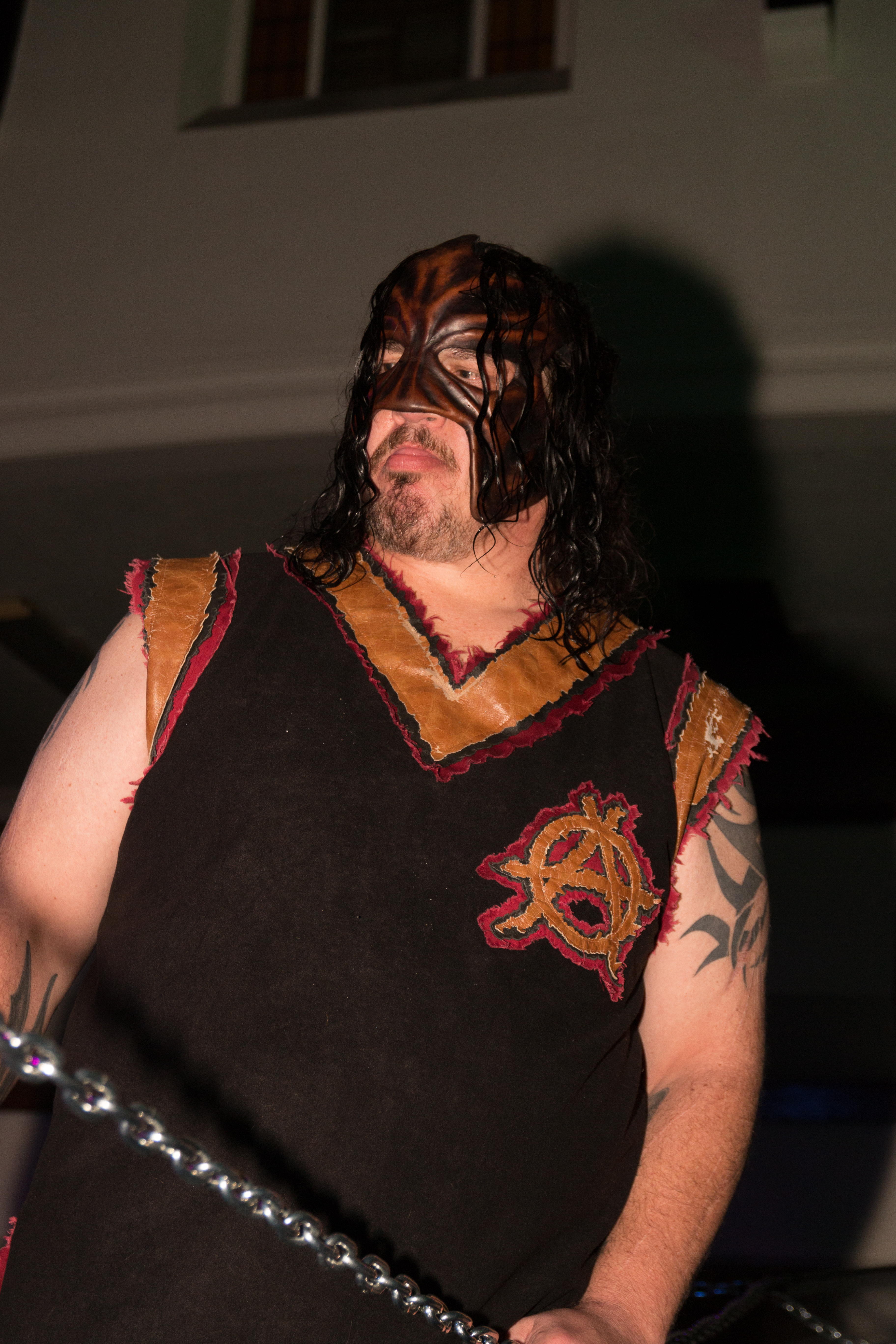 TNA wrestler Abyss at a Superkick'd show in Toronto, ON